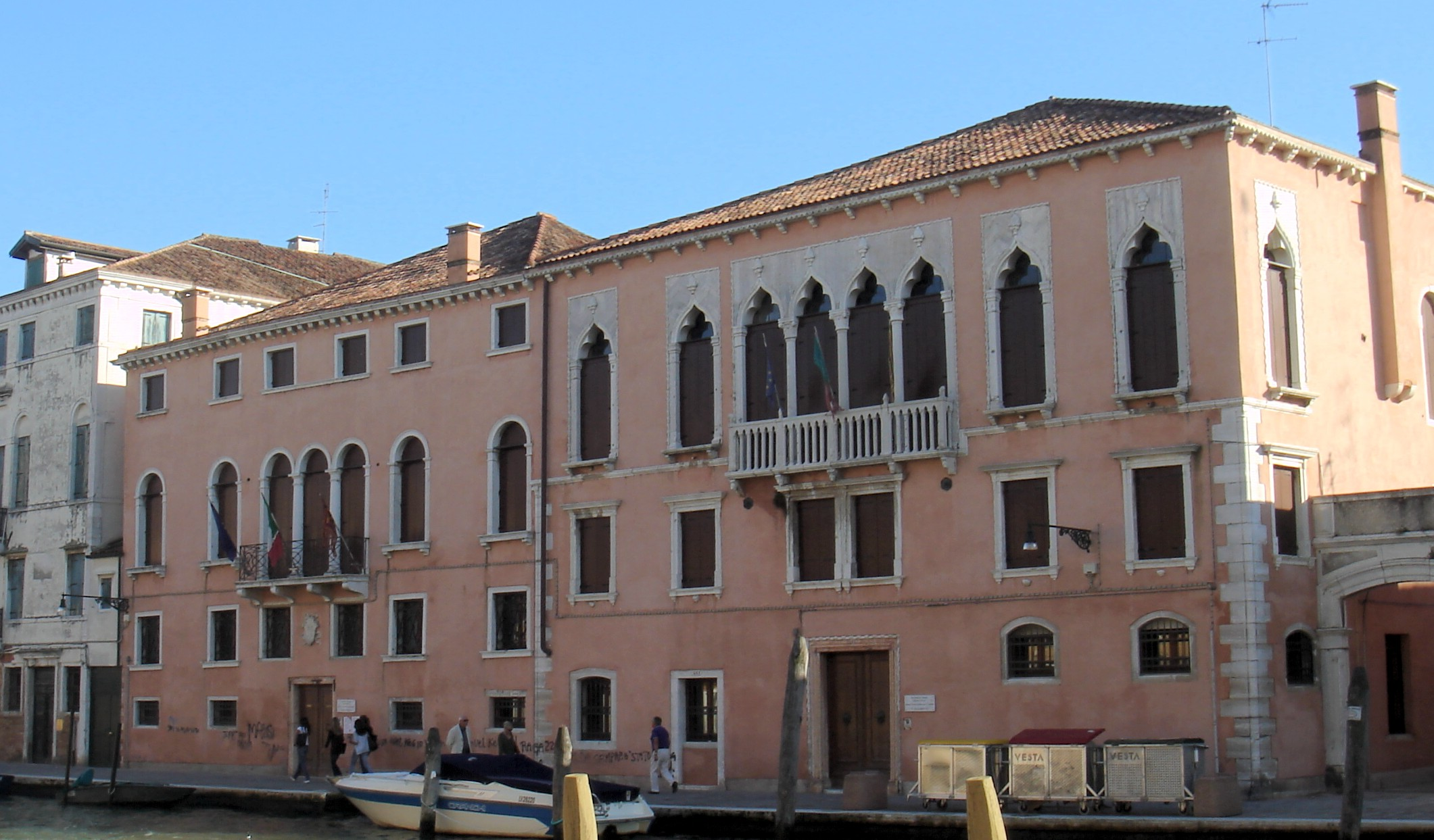 Venezia: Palazzo Testa